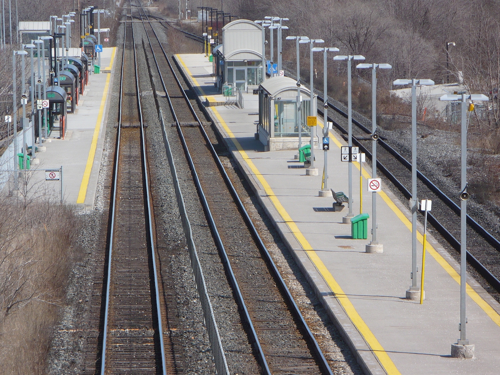 Guildwood railway station in Scarborough, Ontario. Used by both GO Transit and Via Rail